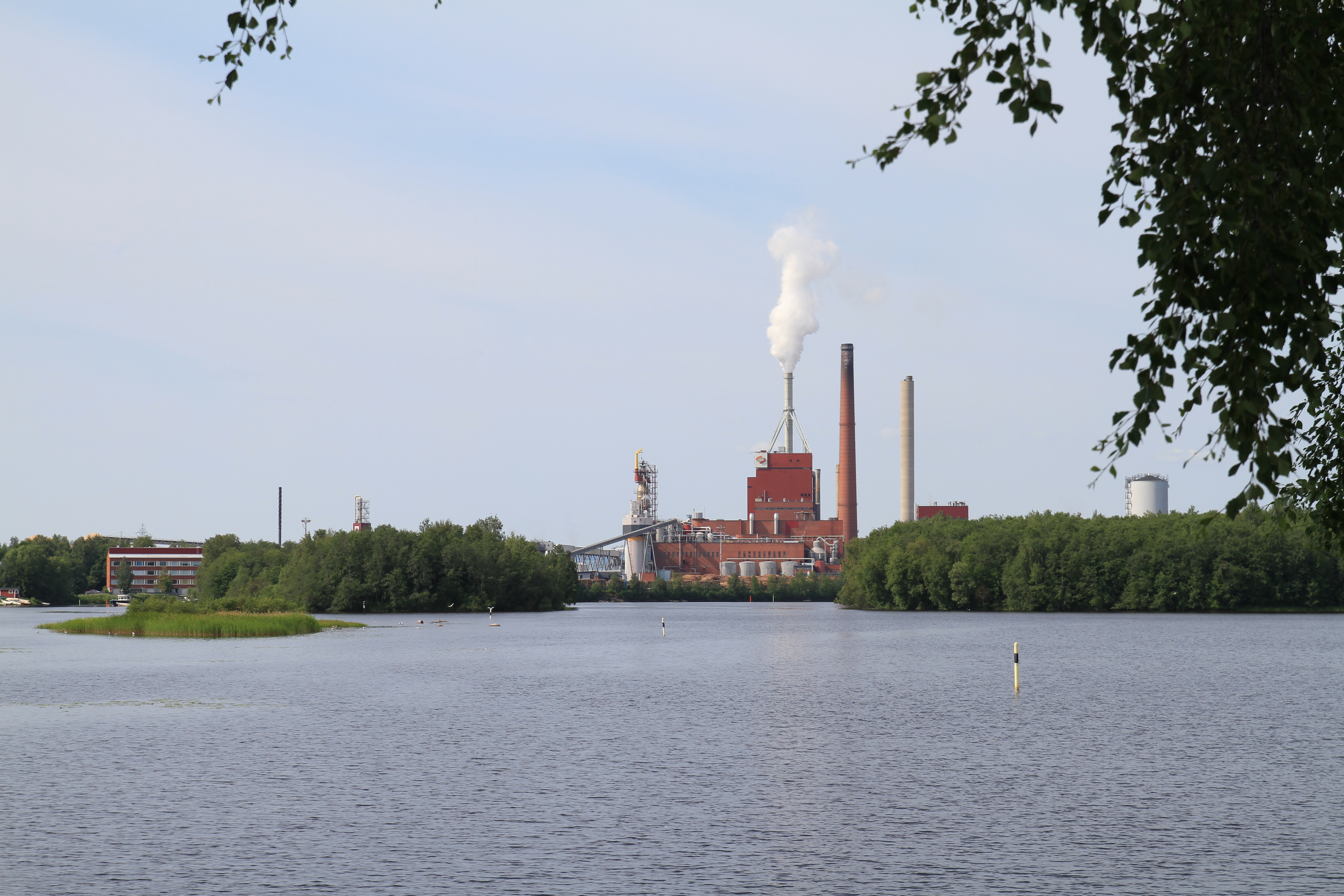 Stora Enso factories seen from Elba island in Oulu in 2010